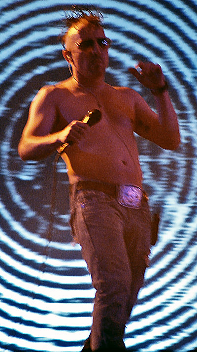 Maynard James Keenan performing at the 2006 Roskilde Festival